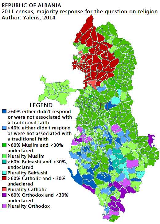 Distribution of different religious confessions around Albania, including Muslims (the census stated 'mysliman', not specifying sect), Bektashi, Catholics, and Orthodox. Based on the census of 2011. Note that this census has been criticized for under-representing the numbers of Orthodox and Bektashi faithful in the country, especially in the South.